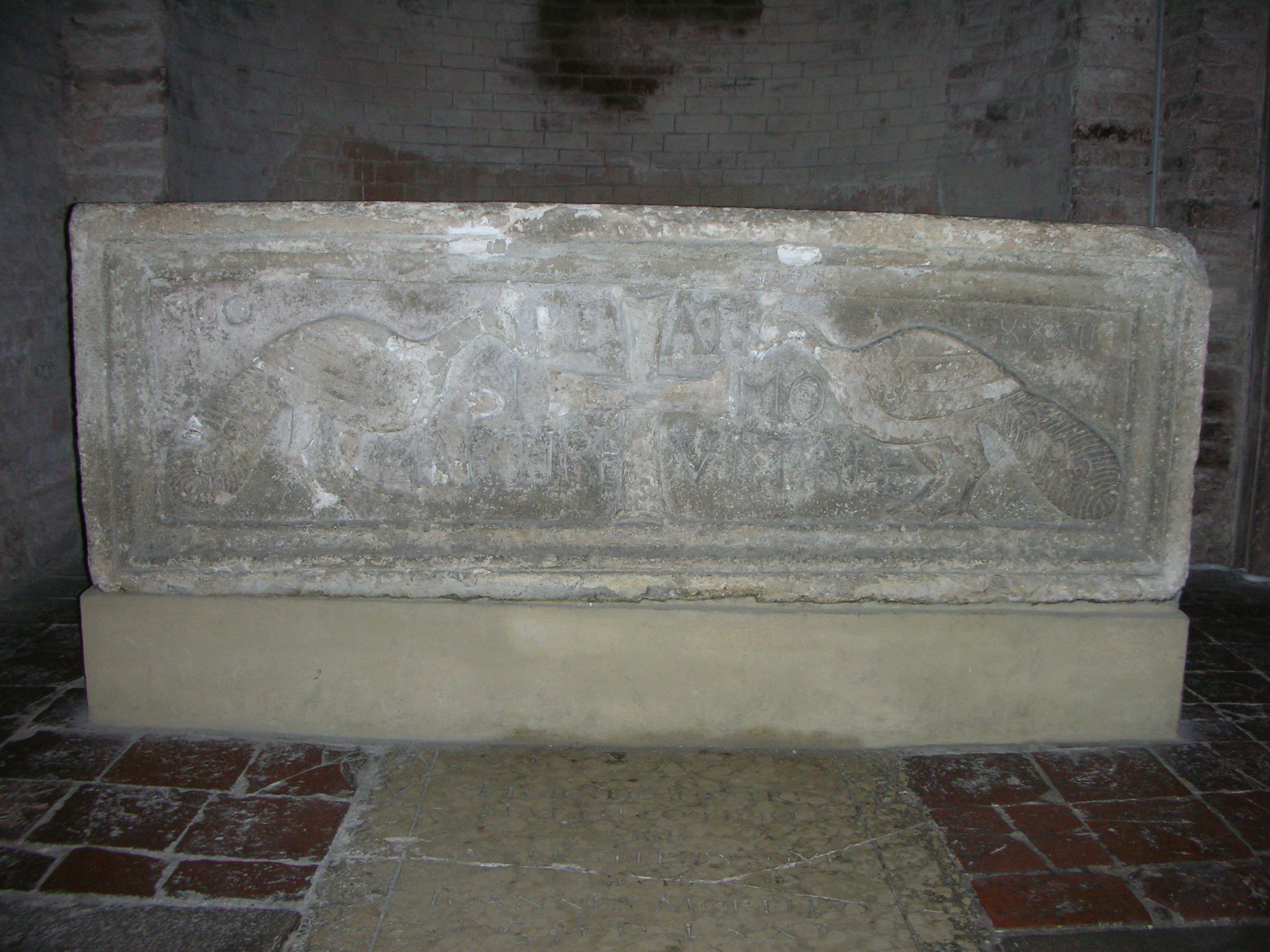 Buildings of Saint Stephen's Basilica in Bologna, Italy, also known as "The Seven Churches". In this picture, the sarcophagus of saint Vitalis of Milan within the building called "Basilica dei santi Vitale e Agricola".